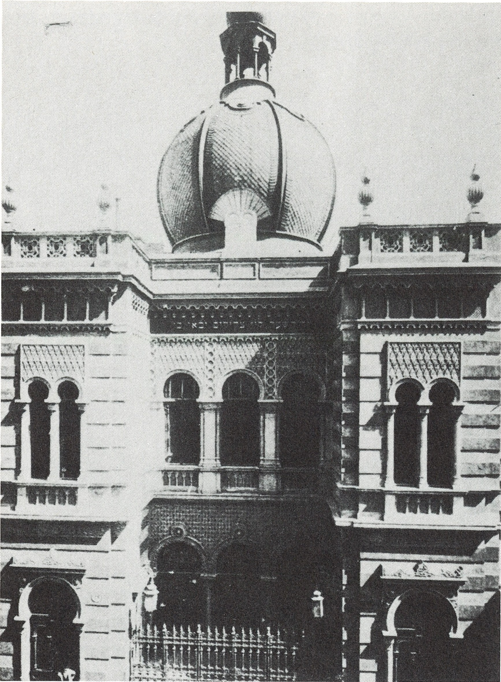 Photo of the Polnische Schul in Vienna.